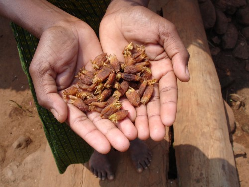 Mahua (Madhuca indica)